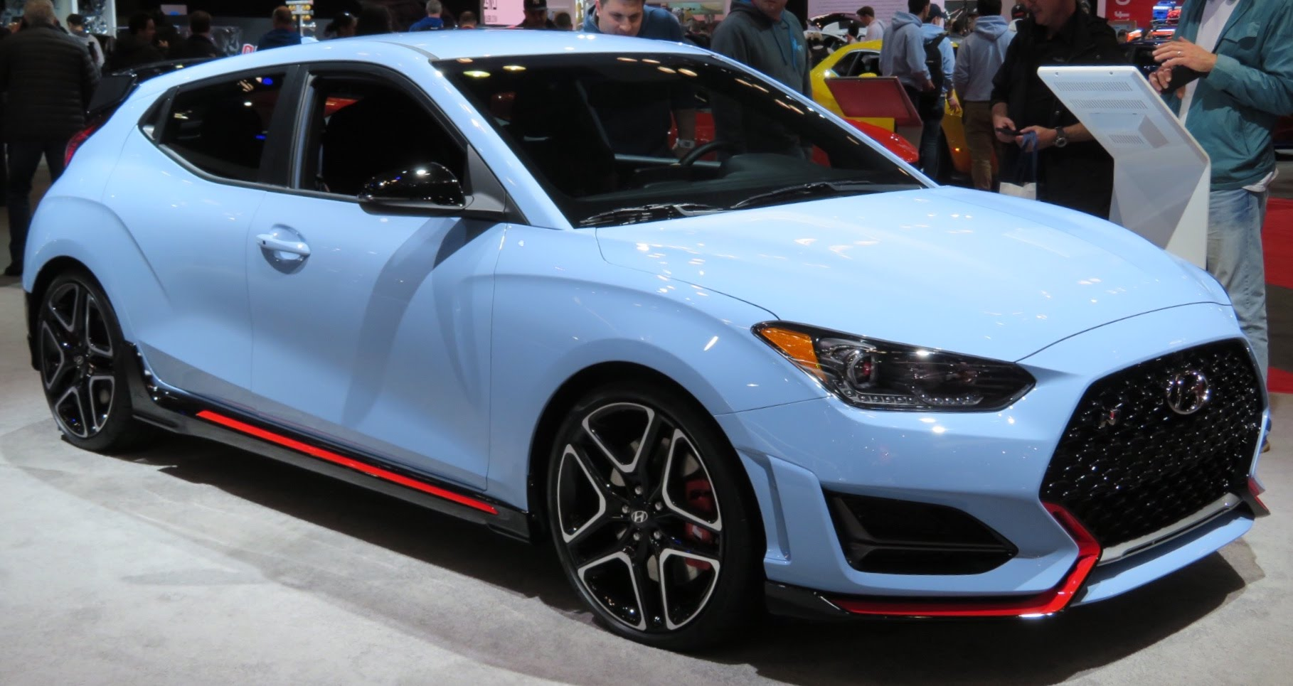 In New York International Auto Show, at Manhattan, New York, USA